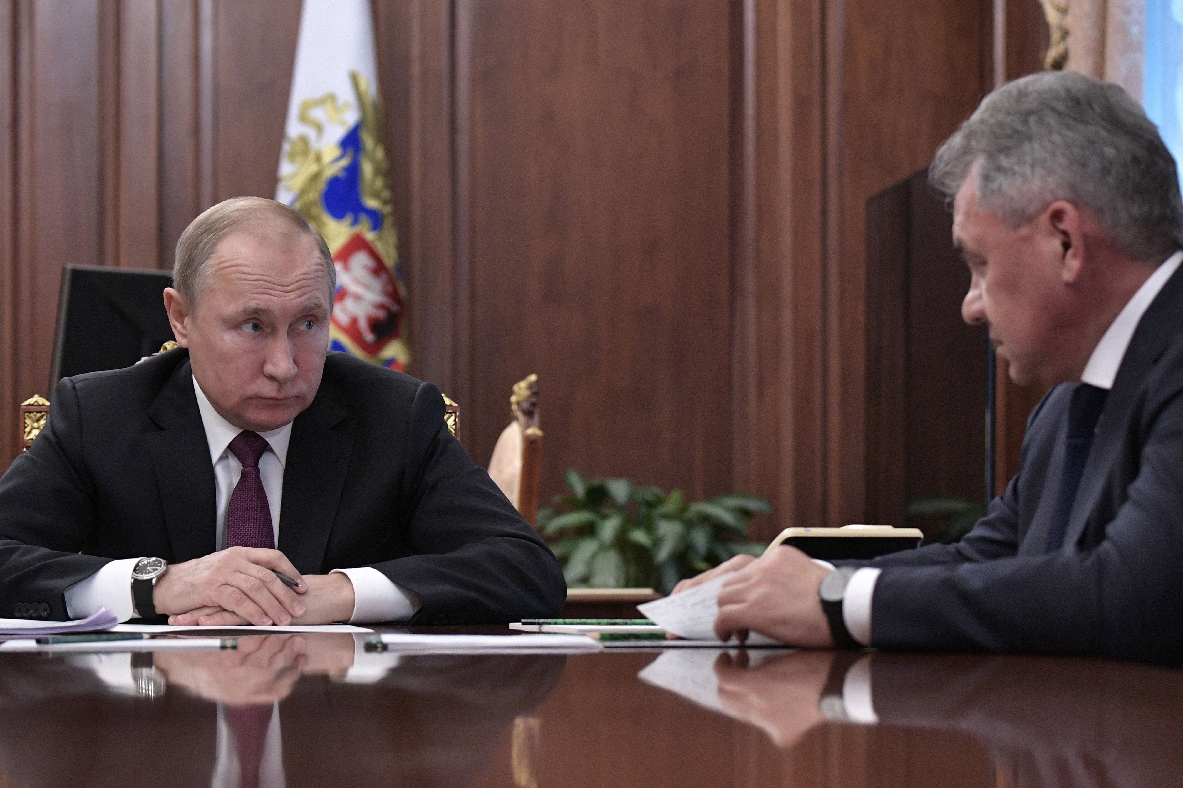 Vladimir Putin, Sergei Lavrov and Sergei Shoigu (2019-02-02)